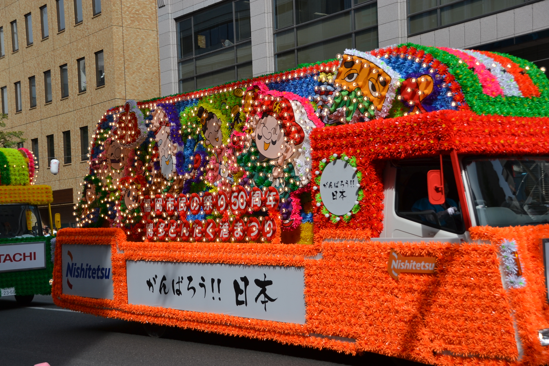 Hakata Dontaku Festival Parade 2011-05-04